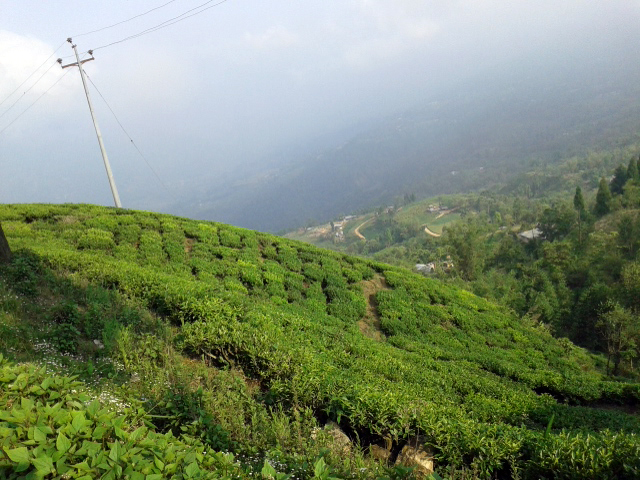 Ilam Tea Garden